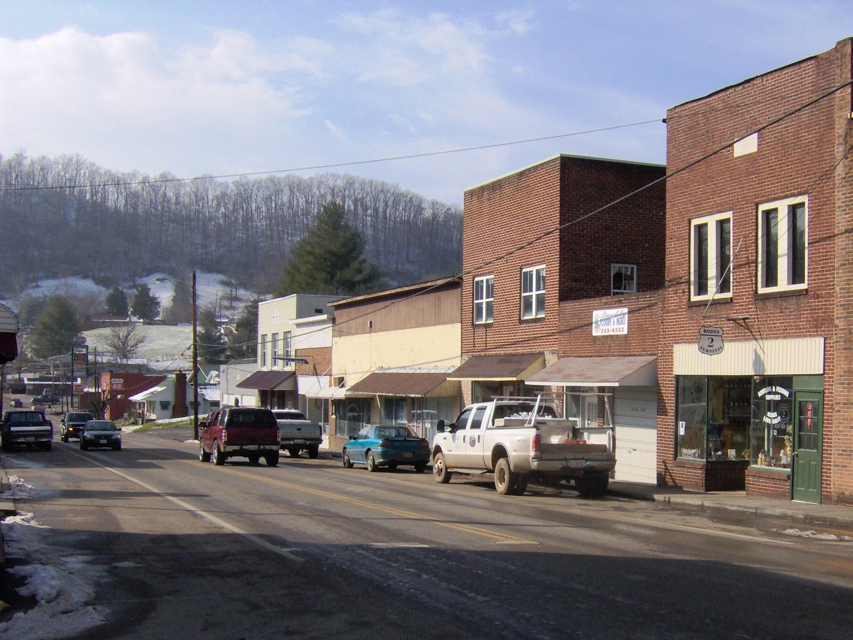 Main Street (part of State Highway 33) in Sneedville, Tennessee, USA, looking west from the courthouse.